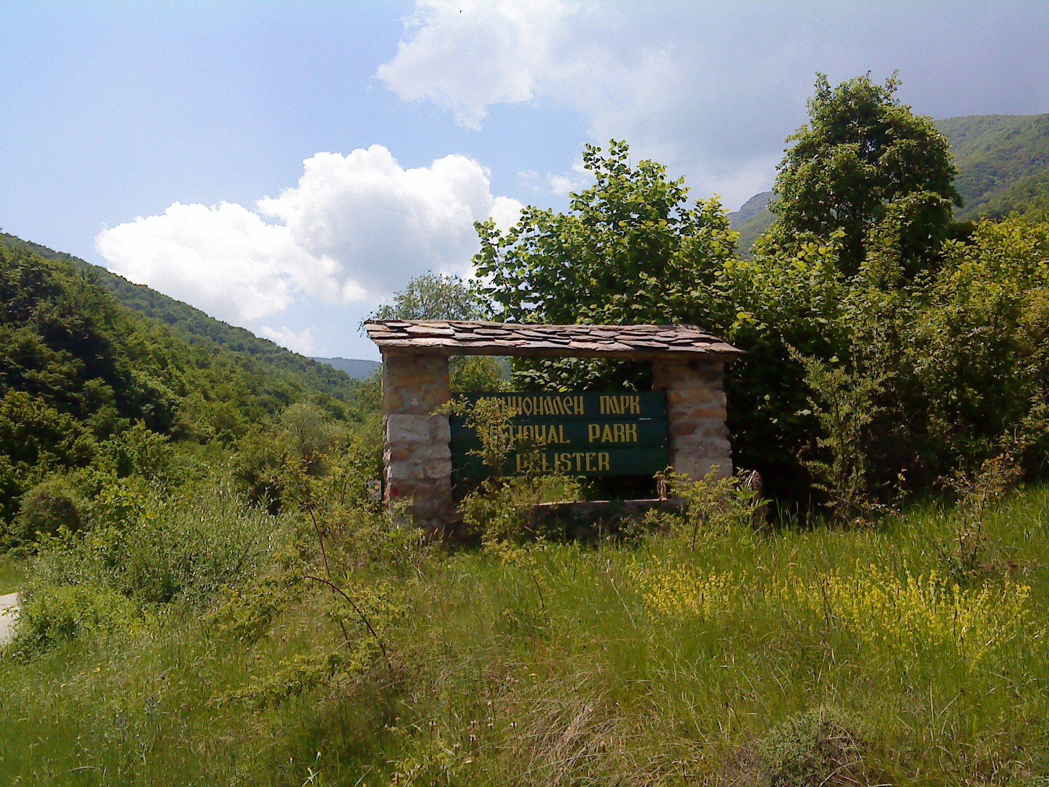 Board Pelister National Park